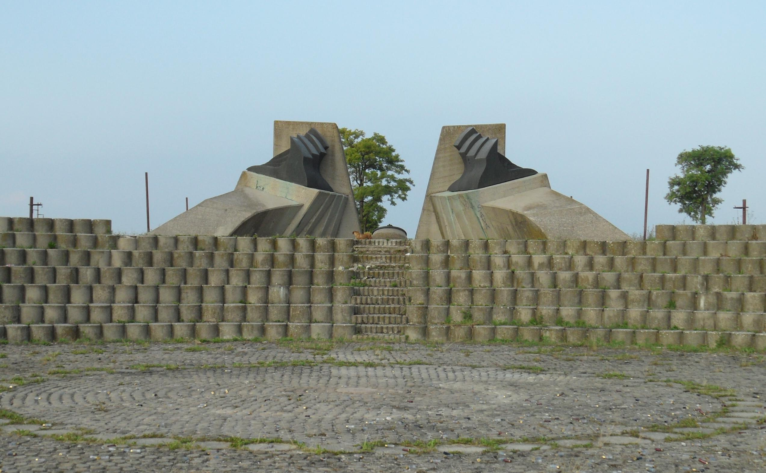 Memorial site Stratište near Jabuka, Vojvodina, Serbia